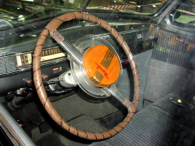 Nash Ambassador Six (1941) Dashboard